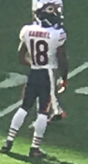 Taylor Gabriel in 2018